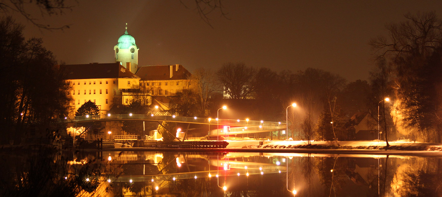 Podebrady castle at night